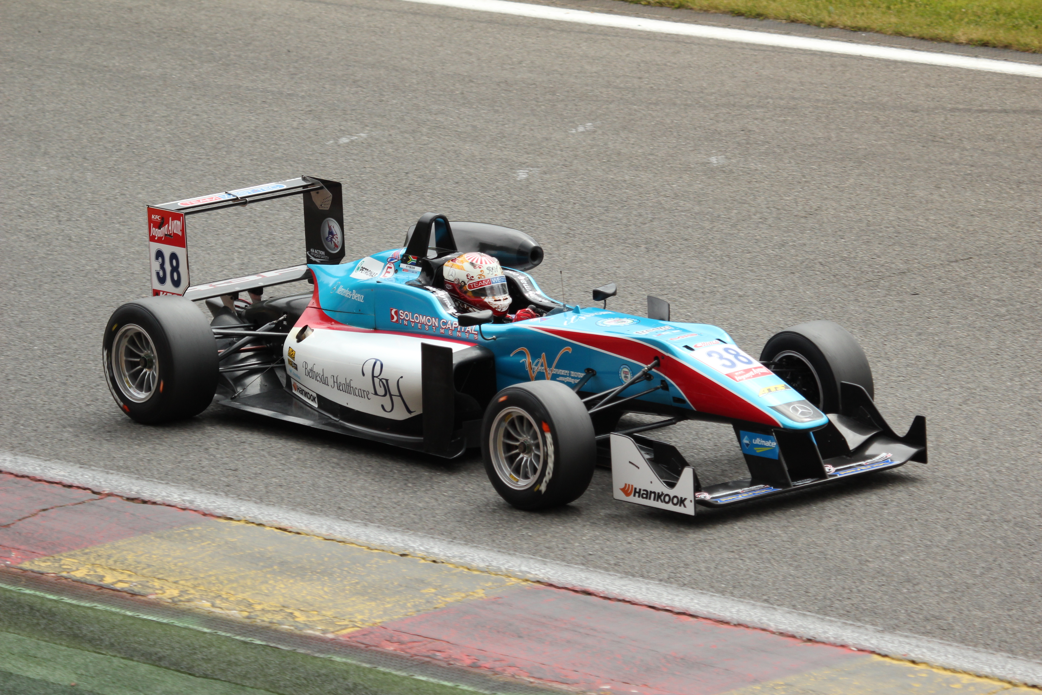 Raoul Hyman at Spa in 2015, European Formula 3 Championship